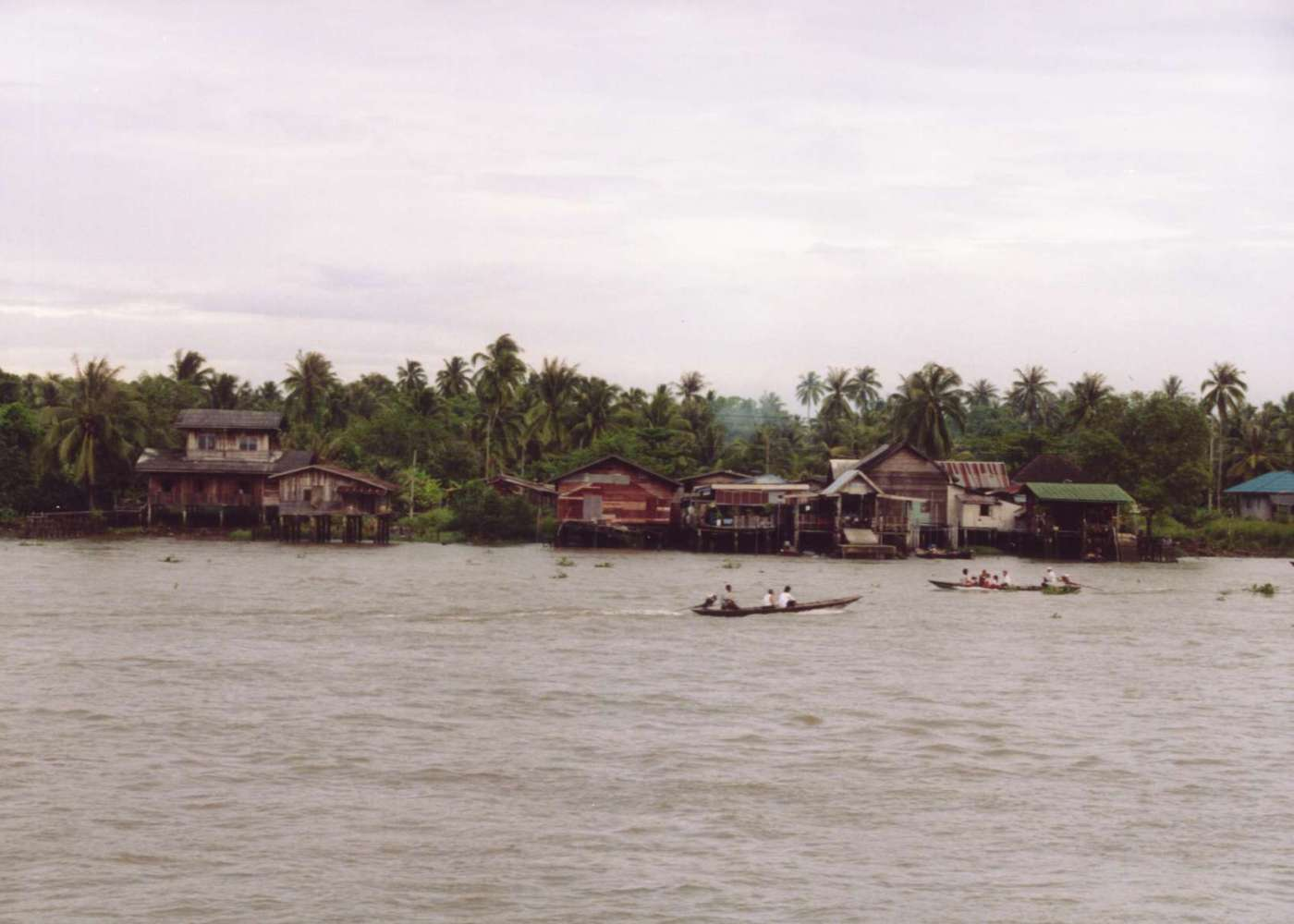 Tapi River in Surat Thani, Thailand. View from the river promenade in the town of Surat Thani. Photo taken User:Ahoerstemeier on July 2, 2003.